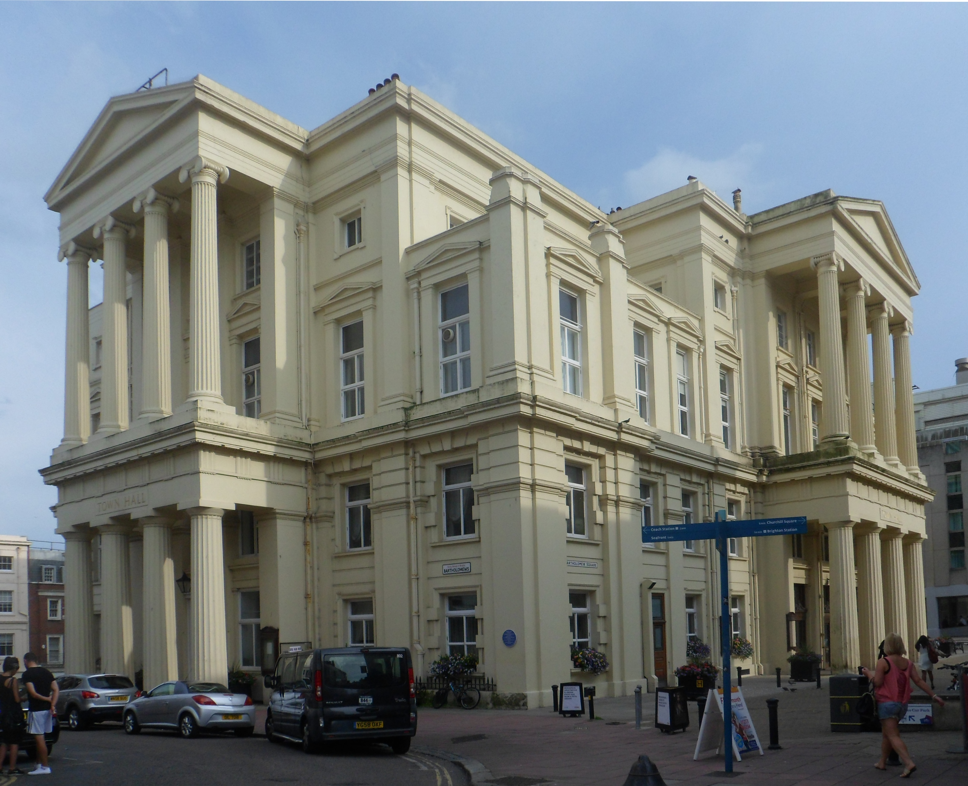 Brighton Town Hall, Bartholomews, The Lanes, Brighton, City of Brighton and Hove, England.